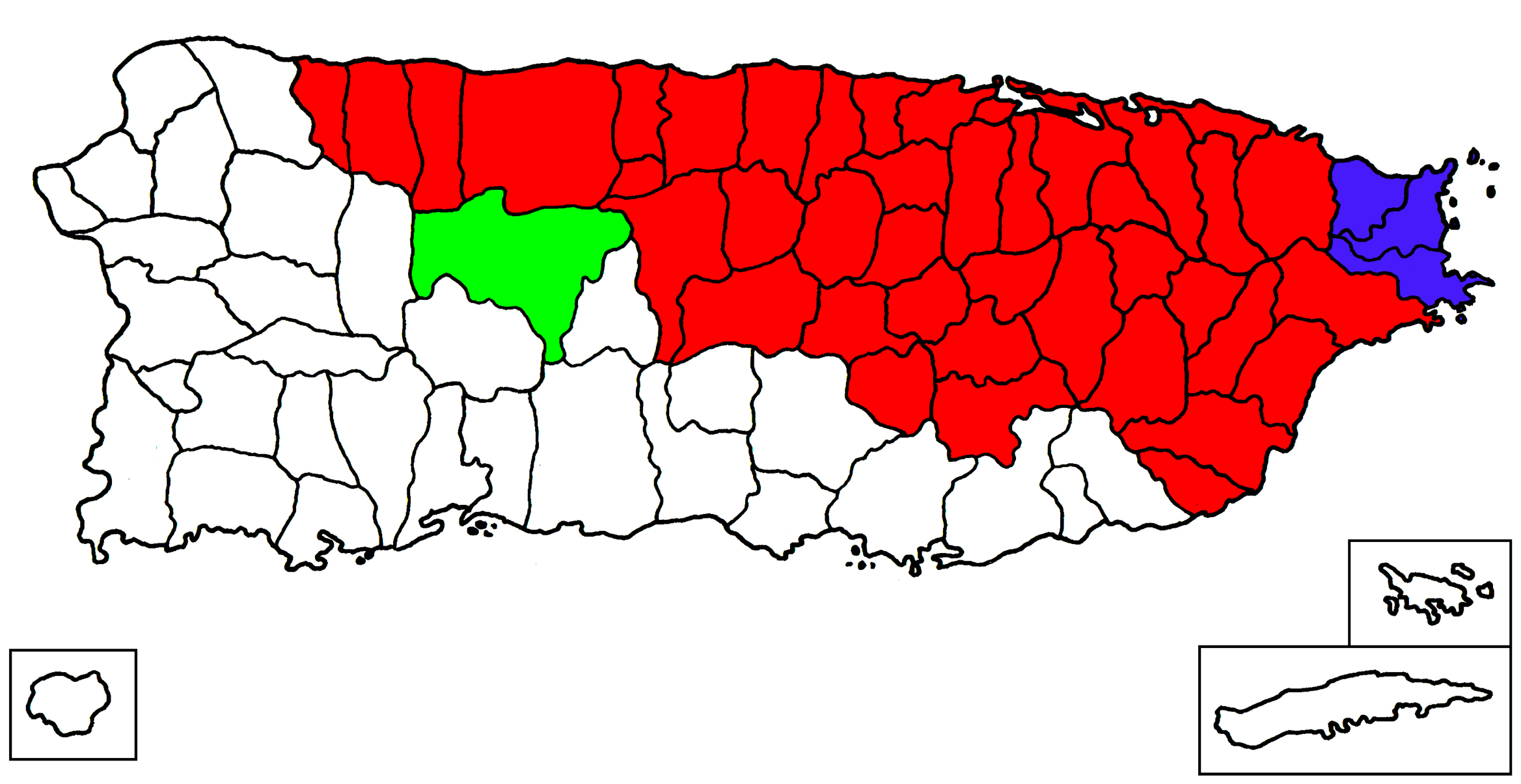 Locator map of the San Juan–Caguas–Fajardo Combined Statistical Area [CSA] in the U.S. territory of Puerto Rico.